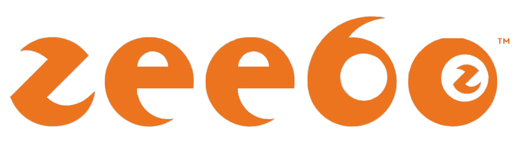 Zeebo's video game logo